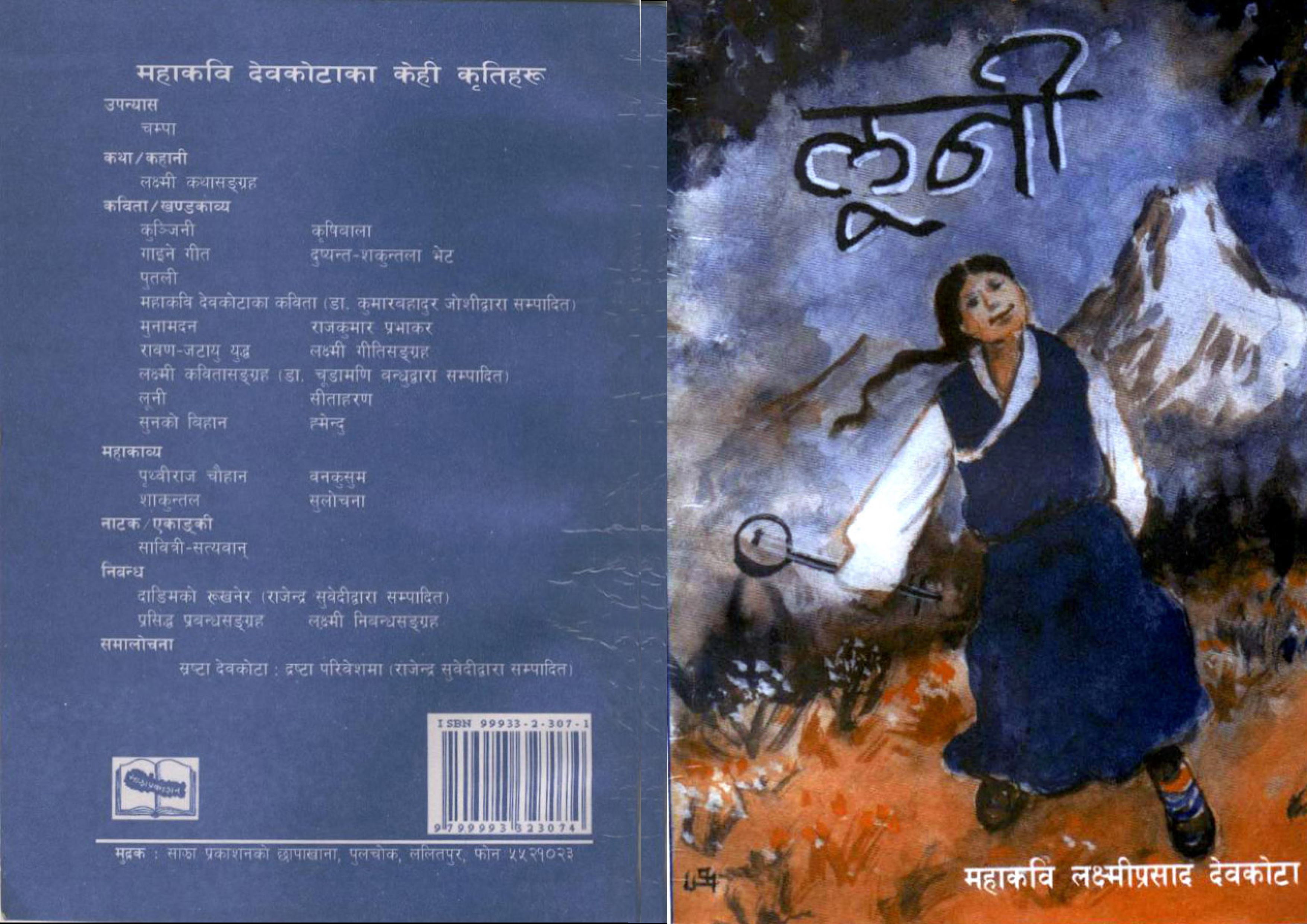 Book Cover Looni. Book Cover Designed by Tekbir Mukhiya.